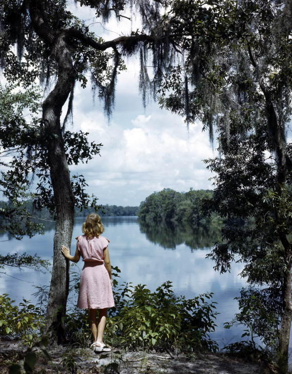 Local call number: JJS0379 Title: Lois Duncan Steinmetz gazing at the Suwannee River Date: 1949 Physical descrip: 1 transparency - col. - 5 x 4 in. Series Title: Repository: 500 S. Bronough St., Tallahassee, FL 32399-0250 USA. Contact: 850.245.6700. Persistent URL